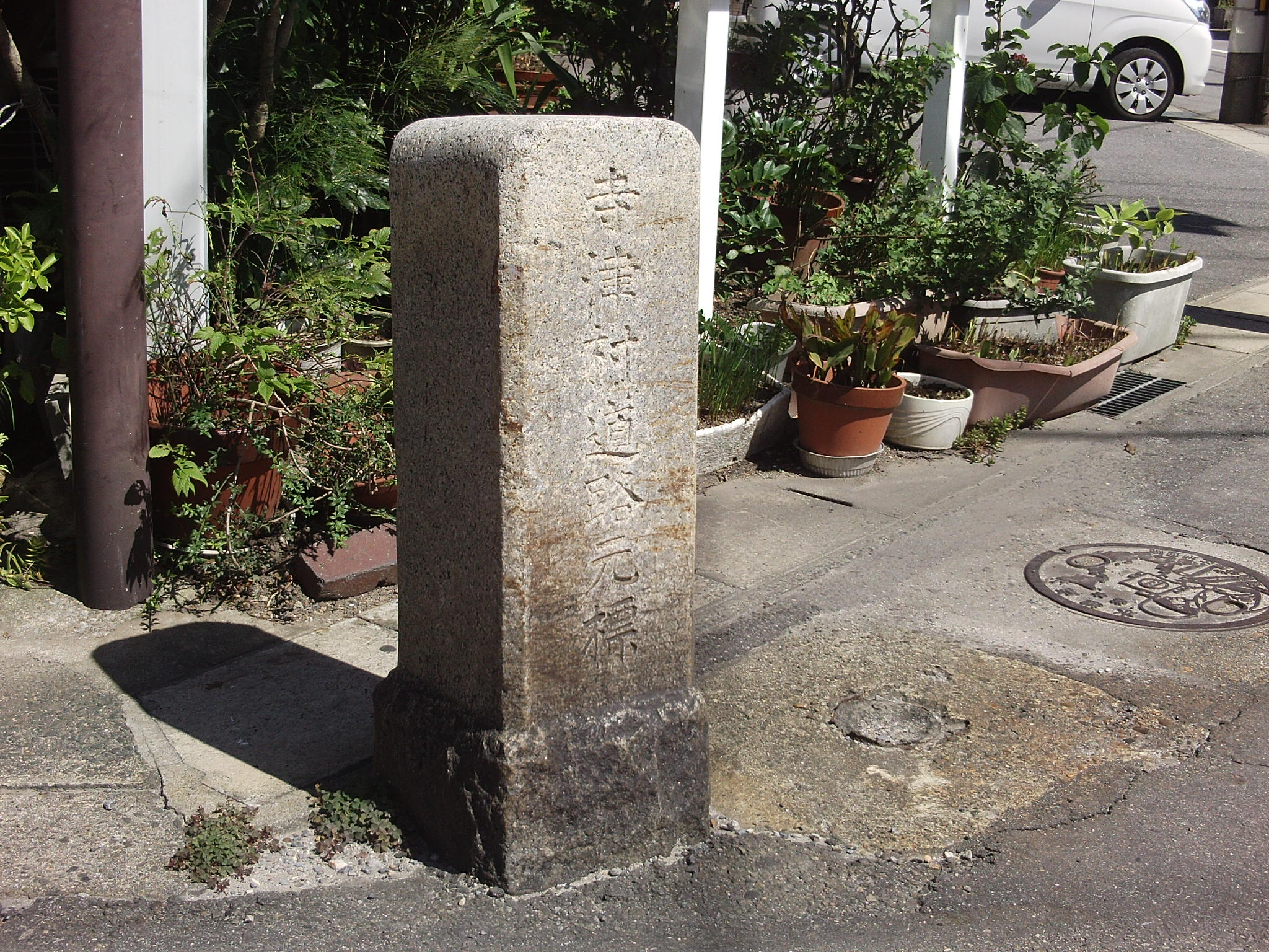 Kilometre zero of Teradzu village. (Teradzu village, Hadzu-gun, Aichi.)